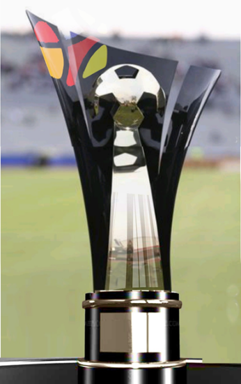 This is the HiFL Trophy that is won at the end of the Higher Institutions Football League, HiFL